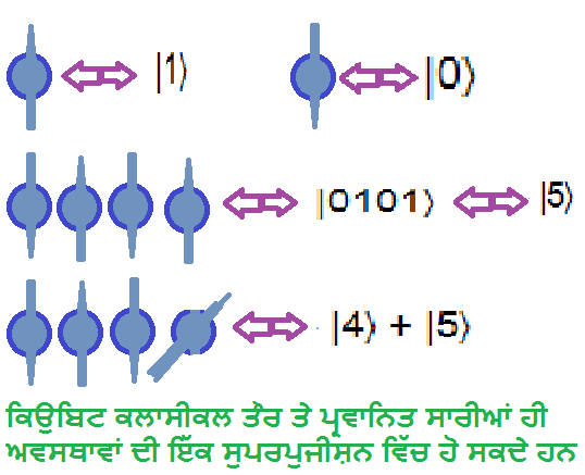 ਕਿਉਬਿਟ ਕੰਟ੍ਰੋਲ ਕੀਤੇ ਹੋਏ ਕਣਾਂ ਤੋਂ ਬਣਦੇ ਹਨ ਅਤੇ ਕੰਟ੍ਰੋਲ ਦਾ ਅਰਥ (ਜਿਵੇਂ ਡਿਵਾਈਸ ਜੋ ਕਣ ਫਸਾਉਂਦਾ ਹੈ ਅਤੇ ਉਹਨਾਂ ਨੂੰ ਇੱਕ ਅਵਸਥਾ ਤੋਂ ਦੂਜੀ ਅਵਸਥਾ ਤੱਕ ਵਟਾਉਂਦਾ ਹੈ)।